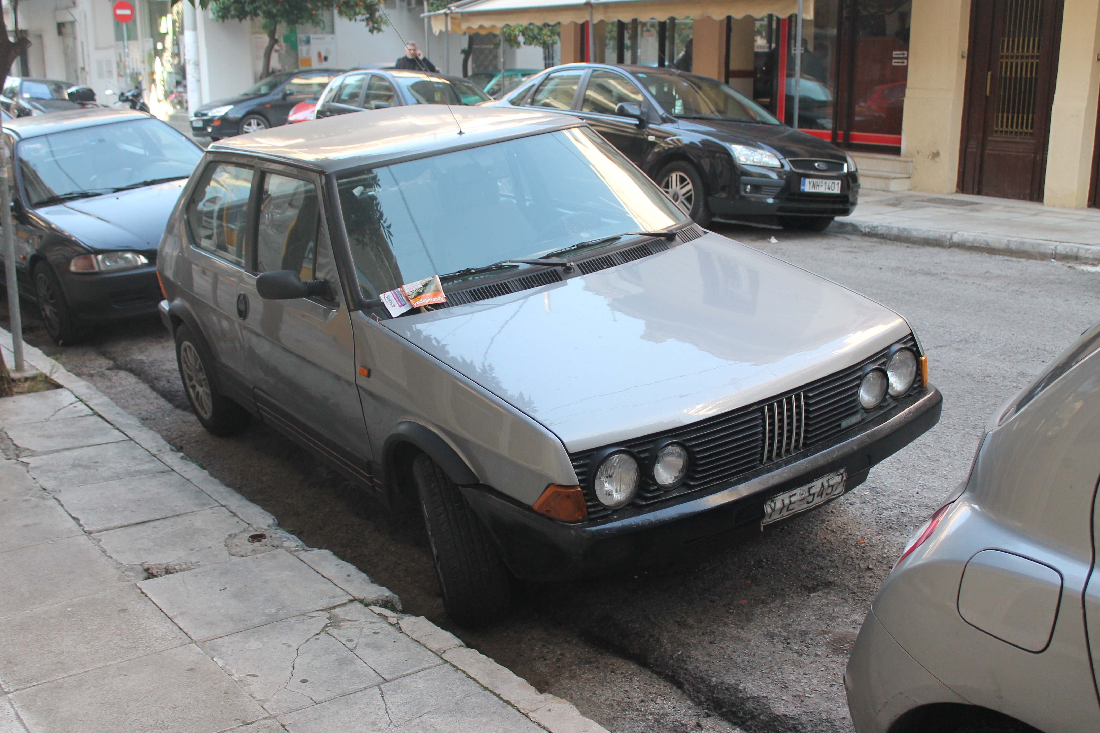 Very nice to see a Ritmo, the only one I spotted on my two and a half month trip. This one's a top spec version, the Abarth 130TC. I believe this is a later model. This was called the Fiat Strada in the UK, and there are just 9 130TC Abarths on the roads there.